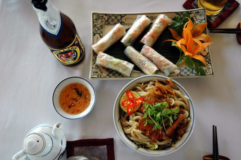 Fresh spring rolls, cao lau and beer in Brother's Cafe, Hoi An, Vietnam.